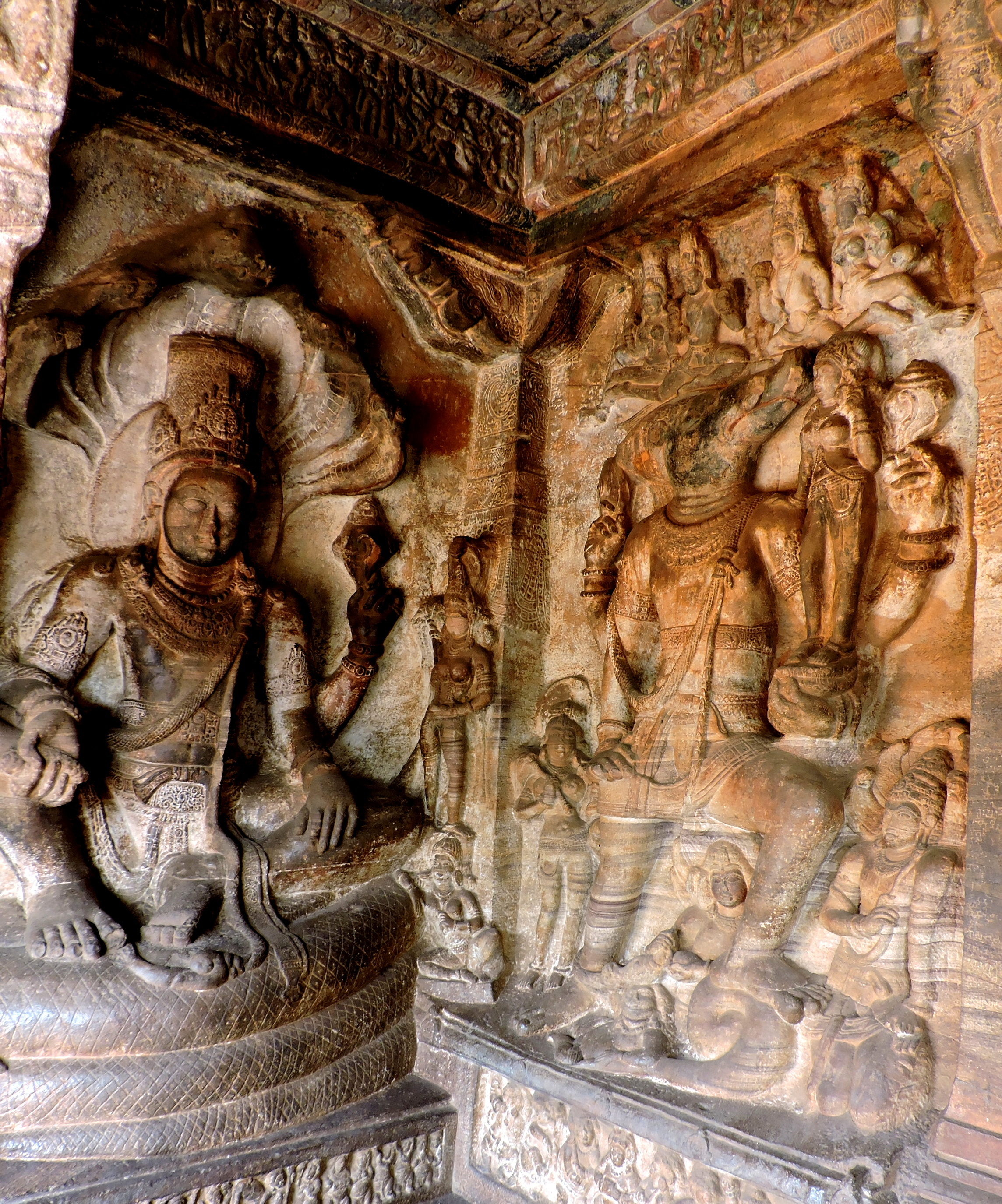 Vishnu on the left, his varaha (boar) avatar on the right